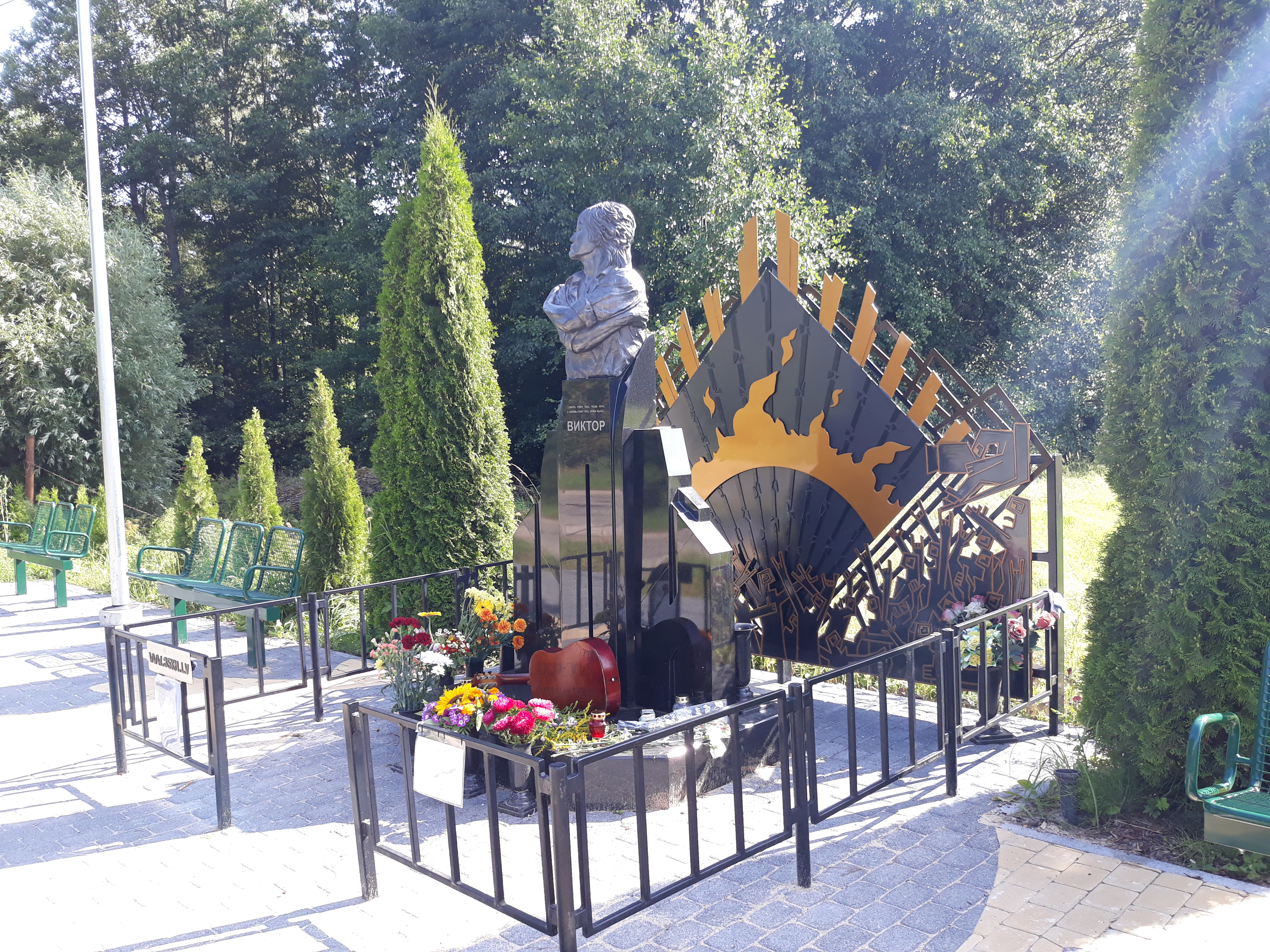 Monument to Victor Tsoy 2019